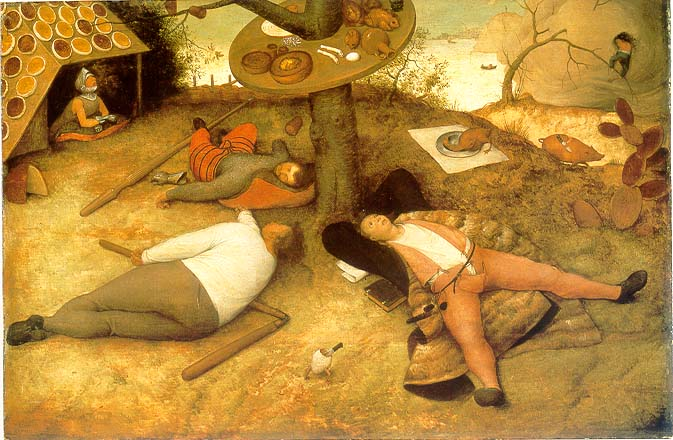 The Land of Cockaigne